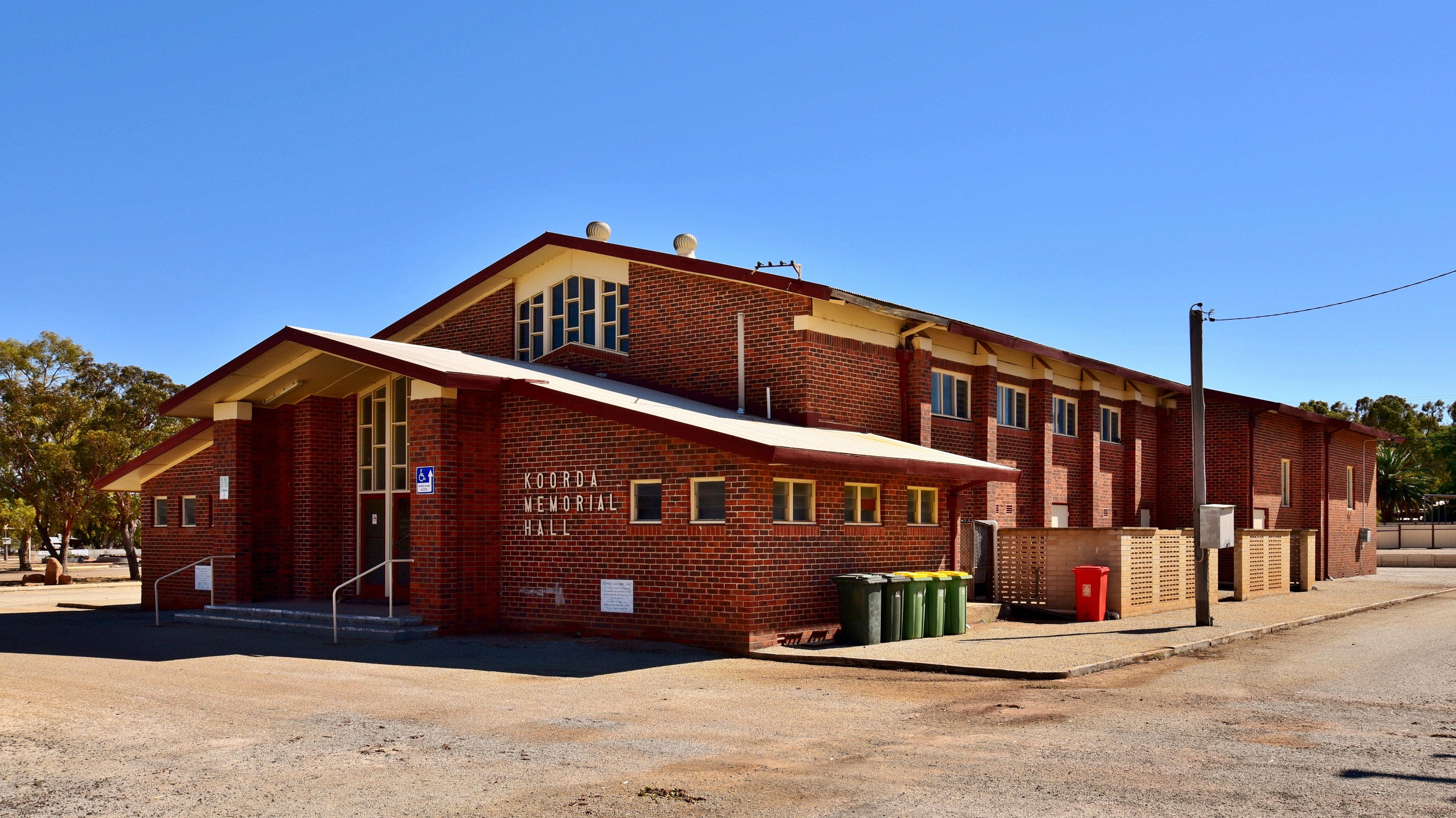 View of the Memorial Hall, Koorda, Western Australia